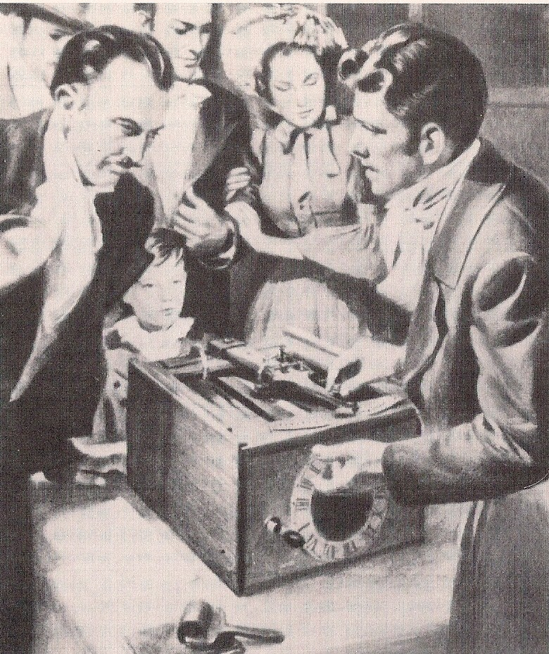 Illustration of William Austin Burt demonstrating his "typowriter"